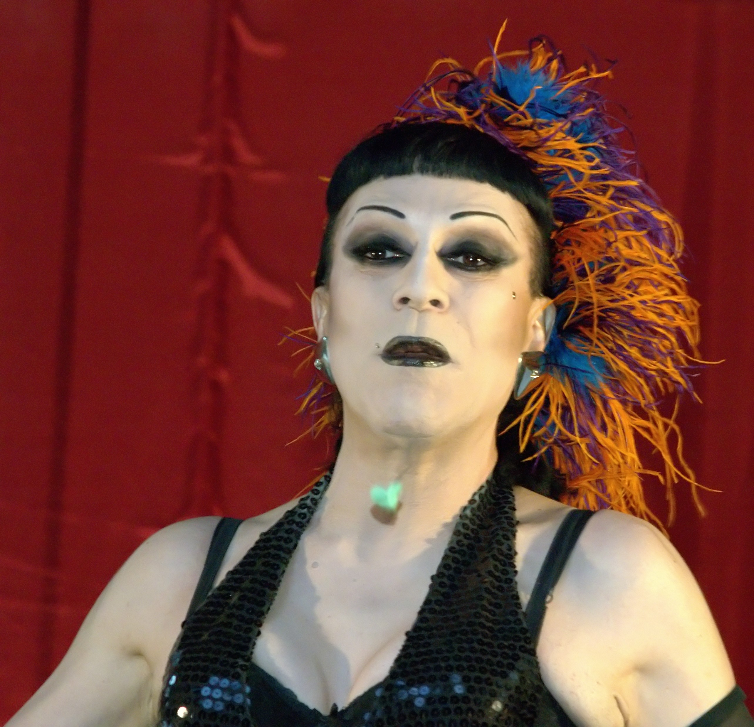 Drag artist, actor, singer and performer Joey Arias at the 2009 HOWL! Festival in New York City's East Village. Photographer's blog post about the photo and event.